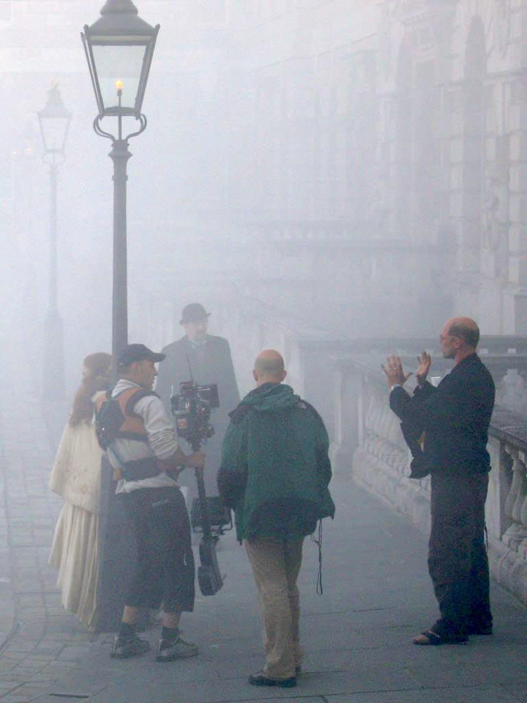 A film crew recreates the atmosphere of a Victorian London smog or pea-souper. This street scene is actually being filmed in the central courtyard of Somerset House, and the smog is artificially generated using a smoke machine. The film director (probably Simon Cellan Jones), on the right, is explaining his ideas for the scene which is being filmed. Whilst the cameraman next to the lamp post is operating a steadicam and wearing the harness required to support it. The actor walking towards the group is wearing a bowler hat. The production was for the TV movie Sherlock Holmes and the Case of the Silk Stocking (IMDB) at Somerset House in London.